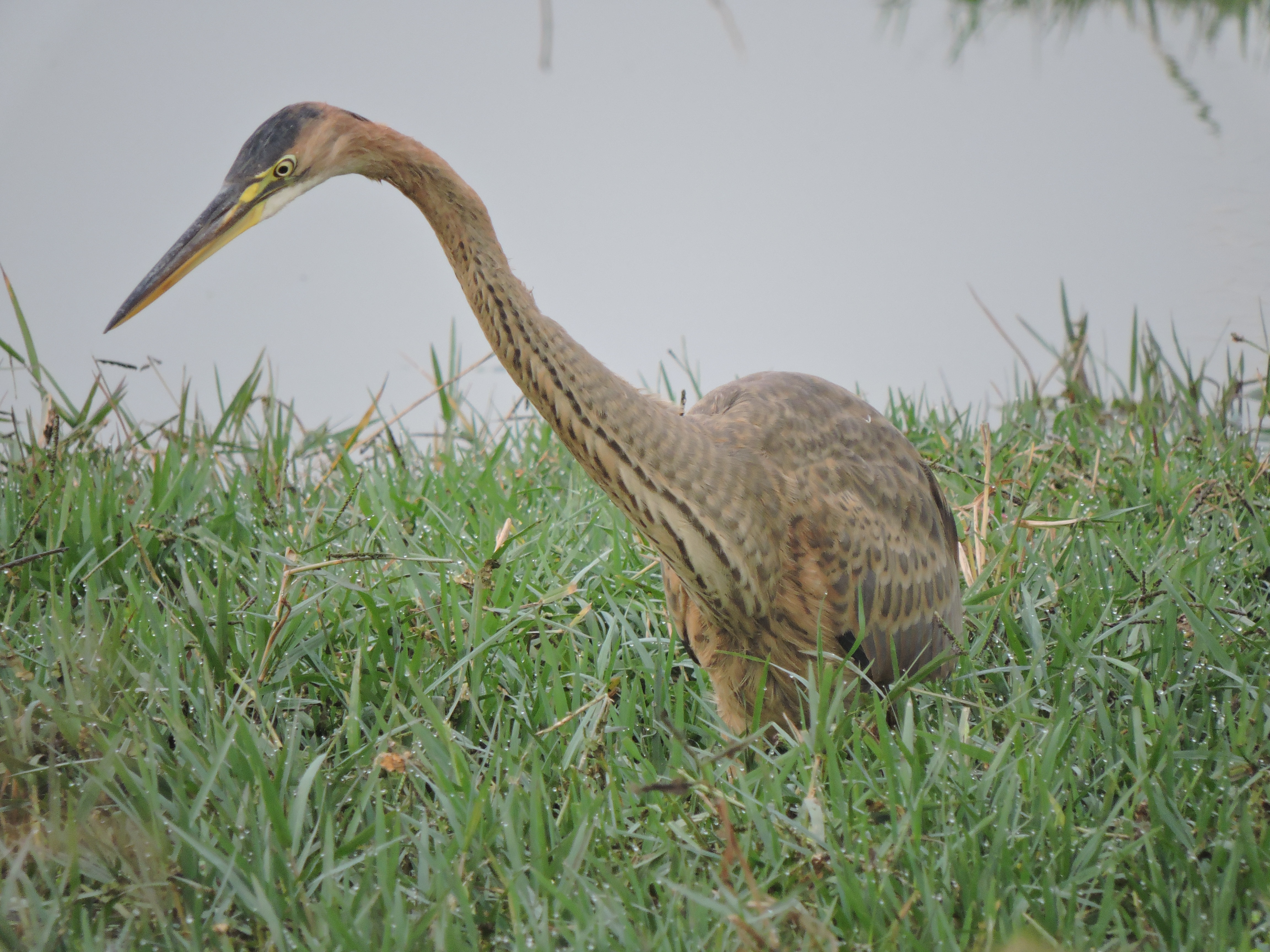 Migratory birds at village pond Bakarpur, Mohali, Punjab, India